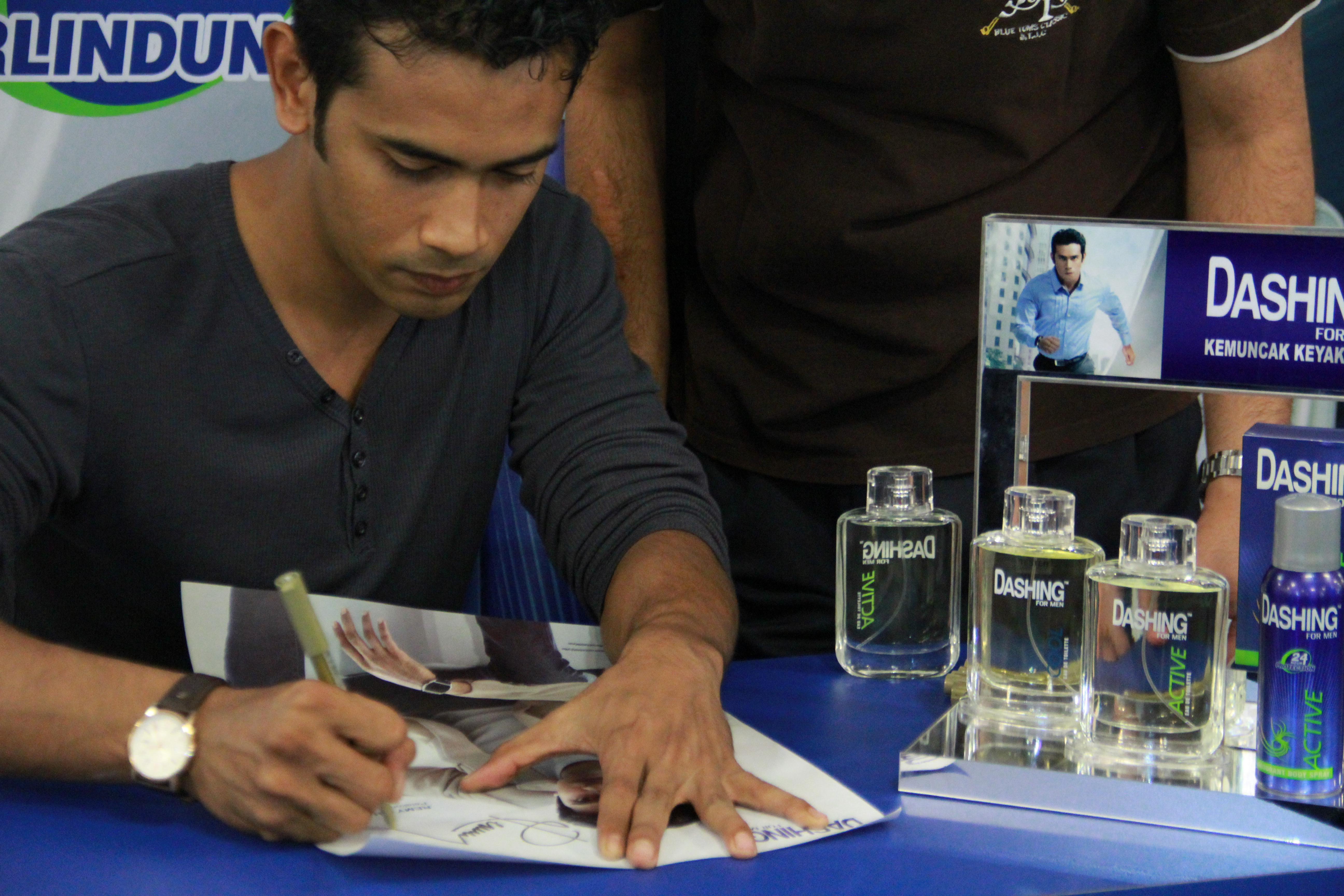 read all about it here